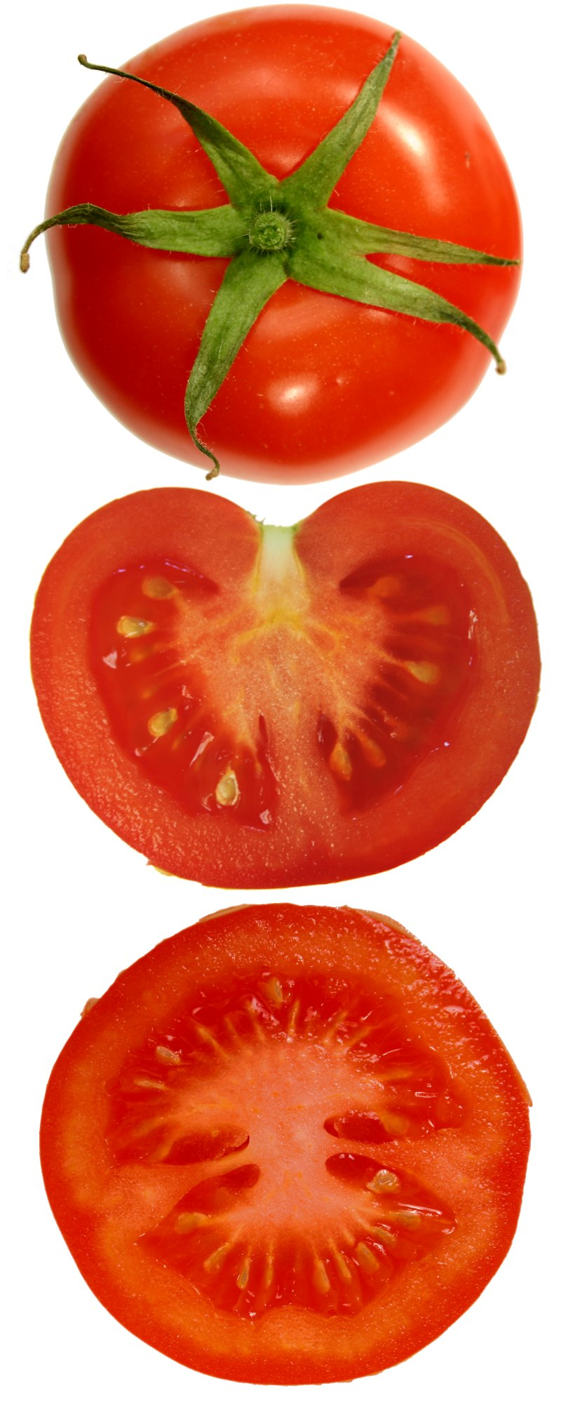 Tomato plain and sliced (vertical, horizontal)